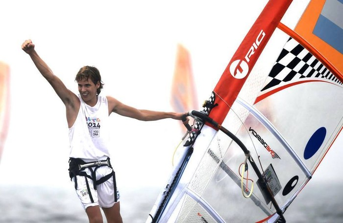 Francisco Saubidet Birkner during the 2014 Summer Youth Olympics.